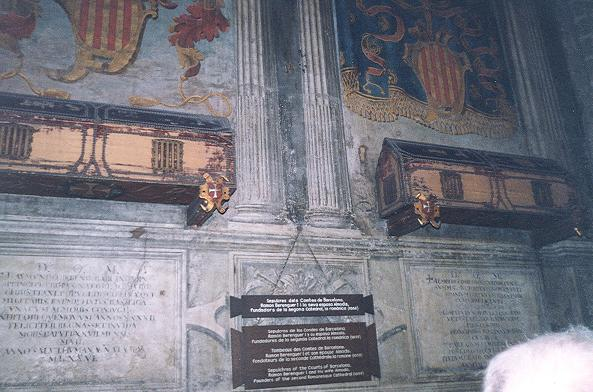 Sepulcher of Raymond Berenguer I,Count of Barcelona, and his wife Almodis (Almadis). Self-created image.